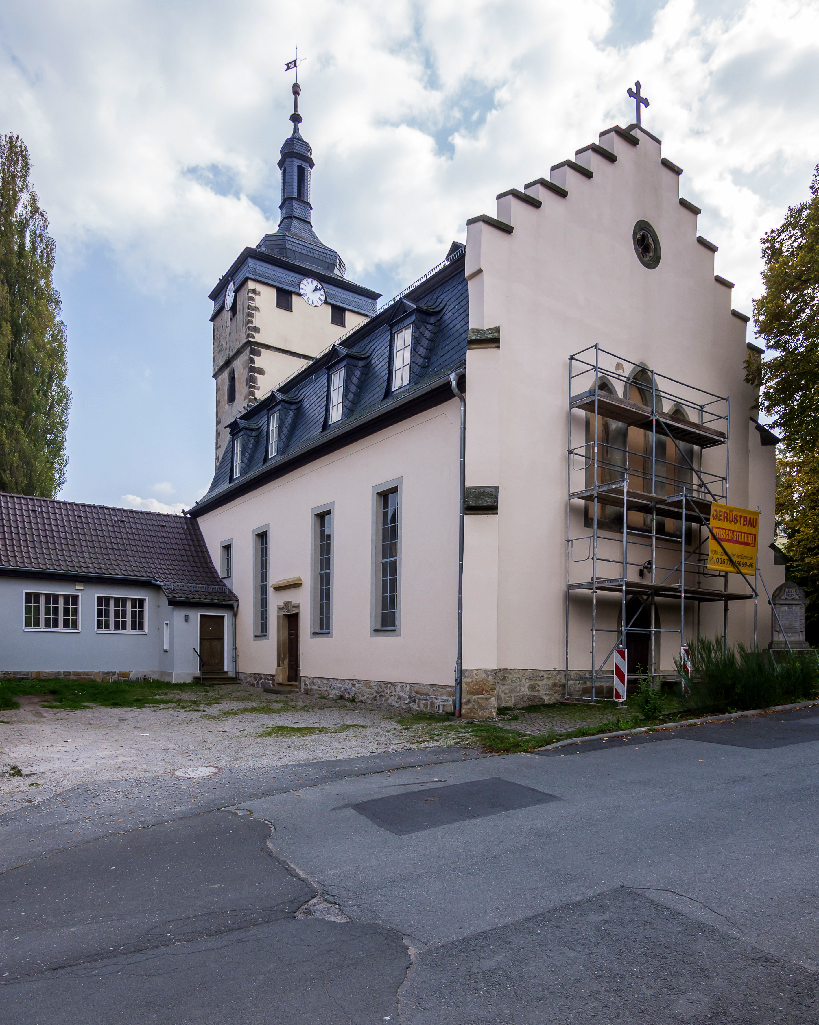 Gorndorf Ratsgasse Kirche mit Ausstattung